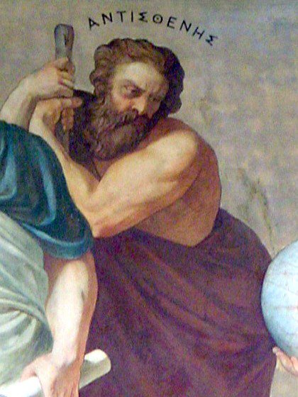 Detail of the right-hand facade fresco, showing Antisthenes. National and Kapodistrian University of Athens.